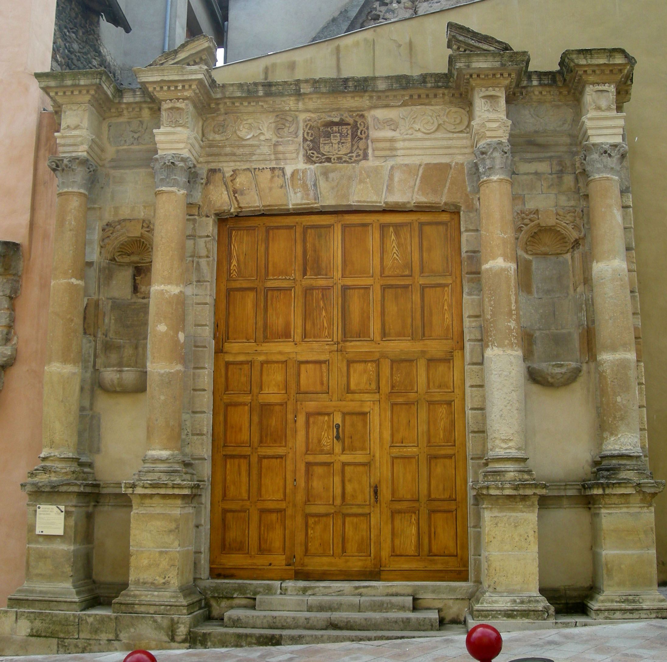 Portal of Couvent des Ursulines in Espalion (Aveyron)